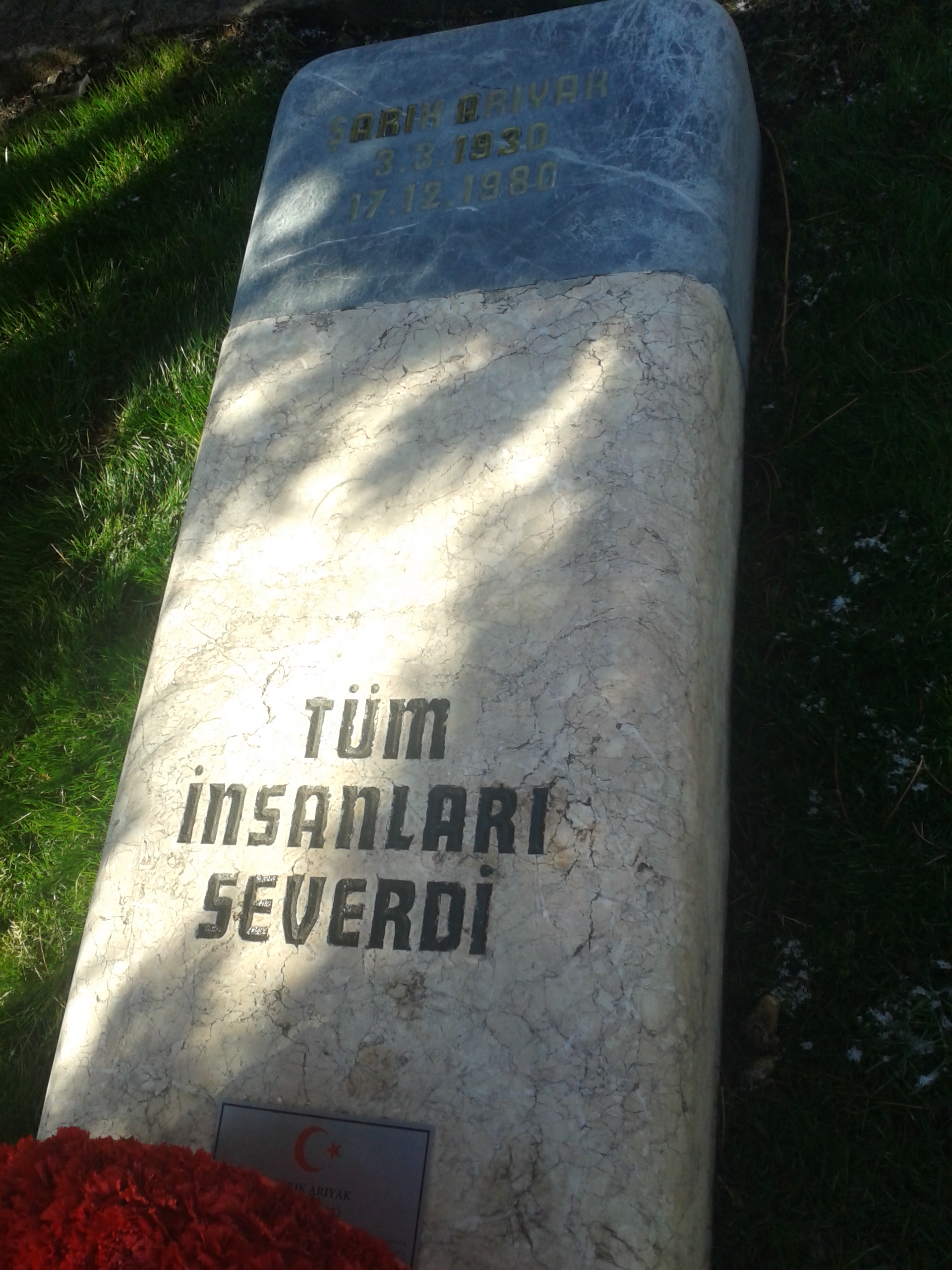 The grave of Turkish diplomat Şarık Arıyak, assassinated by an Armenian terrorist organization. The words written on the lid :"Tüm insanları severdi" means "He used to love all human beings" in Turkish.